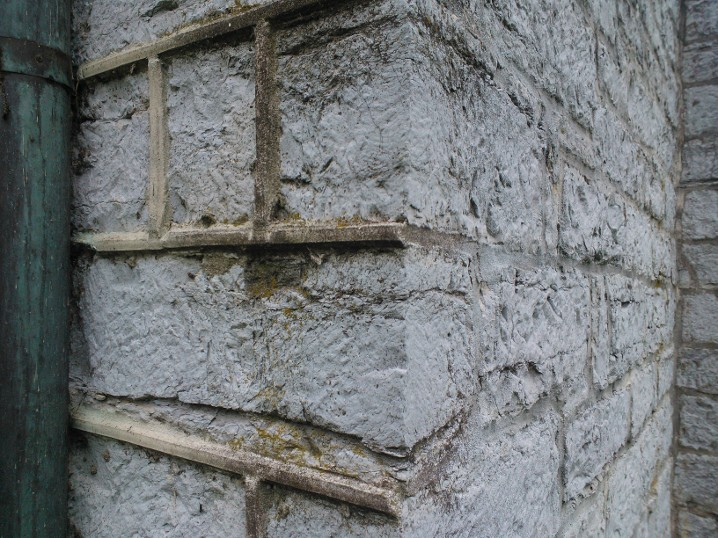 Closeup of the Flemish style of masonry that was used in the construction of Rock Castle in Hendersonville, Tennessee, USA.